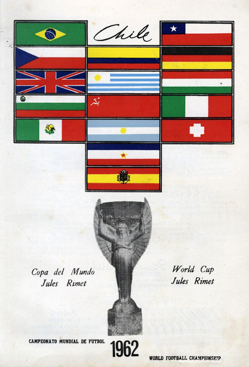 Participating teams in the FIFA World Cup 1962.